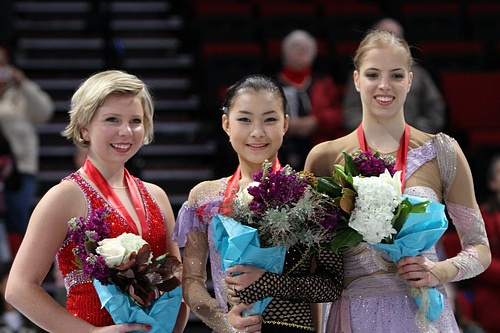 Rachael Flatt (2), Kanako Murakami (1), Carolina Kostner (3) at the 2010 Skate America